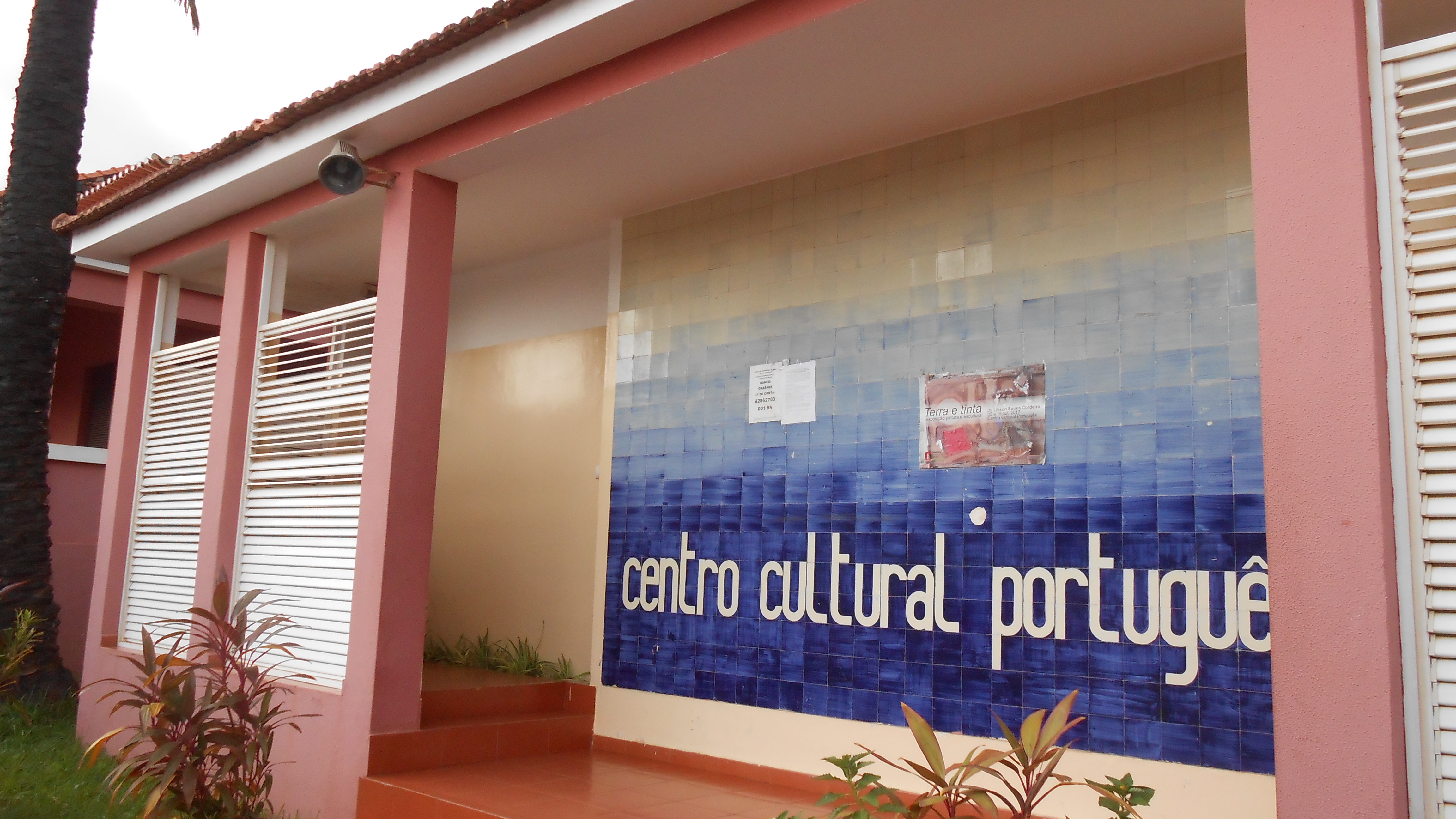 The portuguese cultural centre in the portuguese embassy in Bissau, capital of Guinea-Bissau.